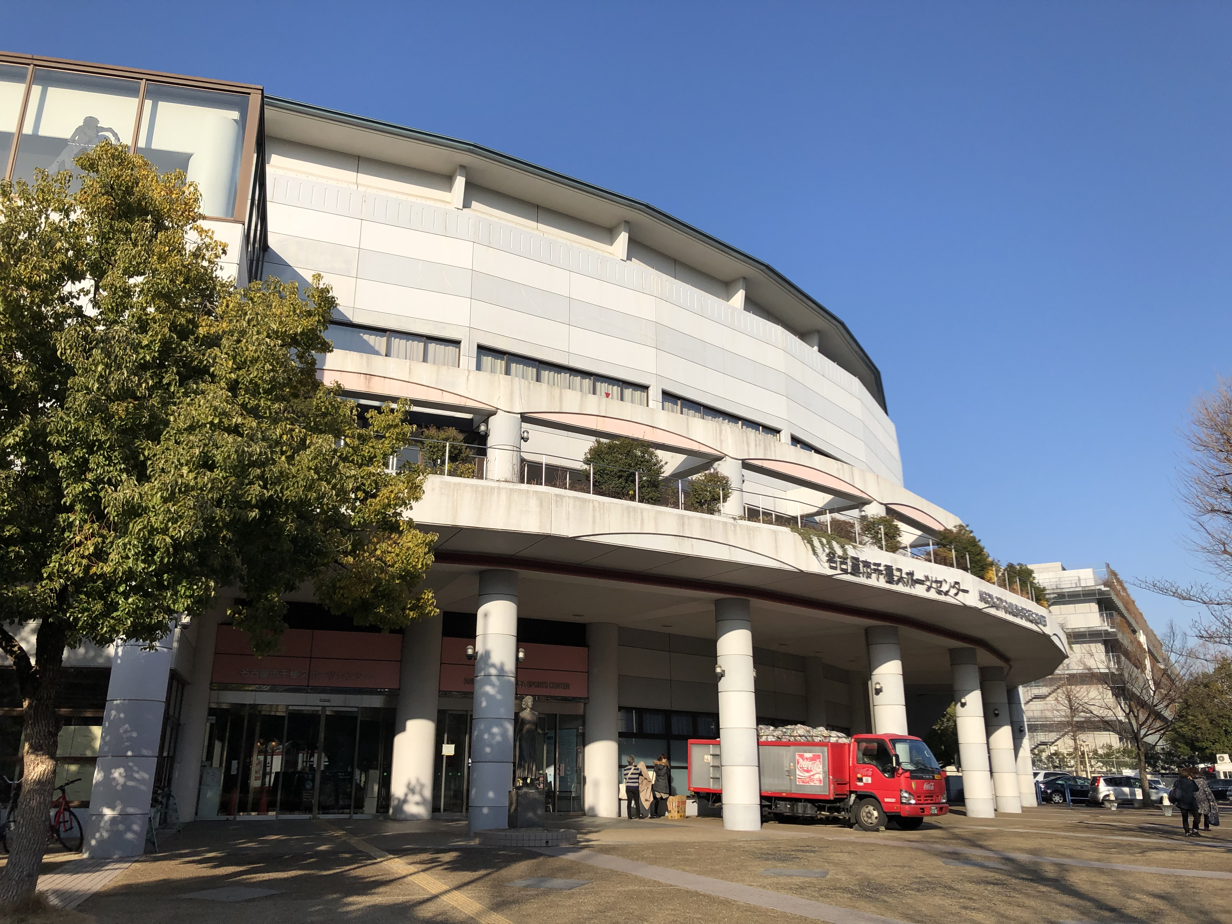 Chikusa Sports Center02